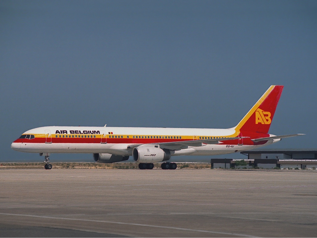 OO-ILI, Air Belgium, Boeing 757-200, Faro Airport